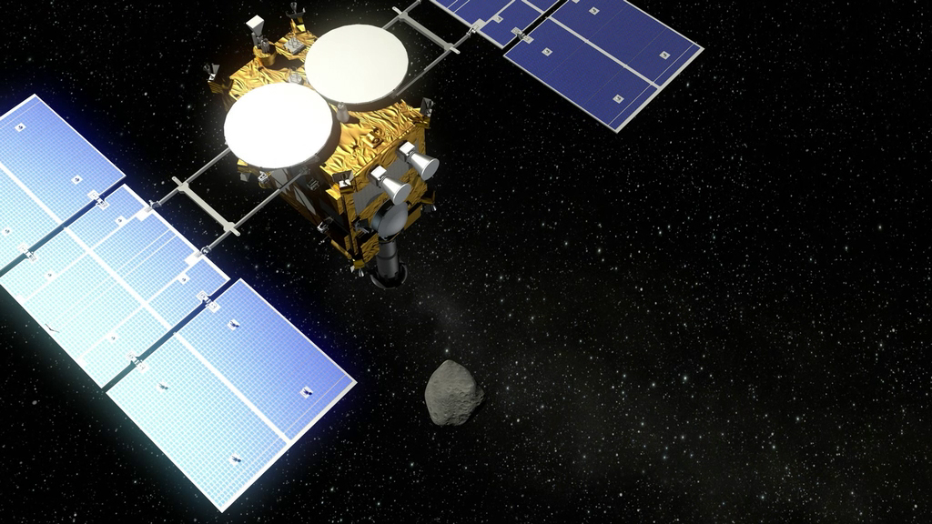 The Hayabusa 2 probe and an asteroid - visualization.